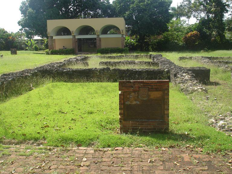 Ruins of Juan Ponce de Leon's residence at Caparra in Puerto Rico